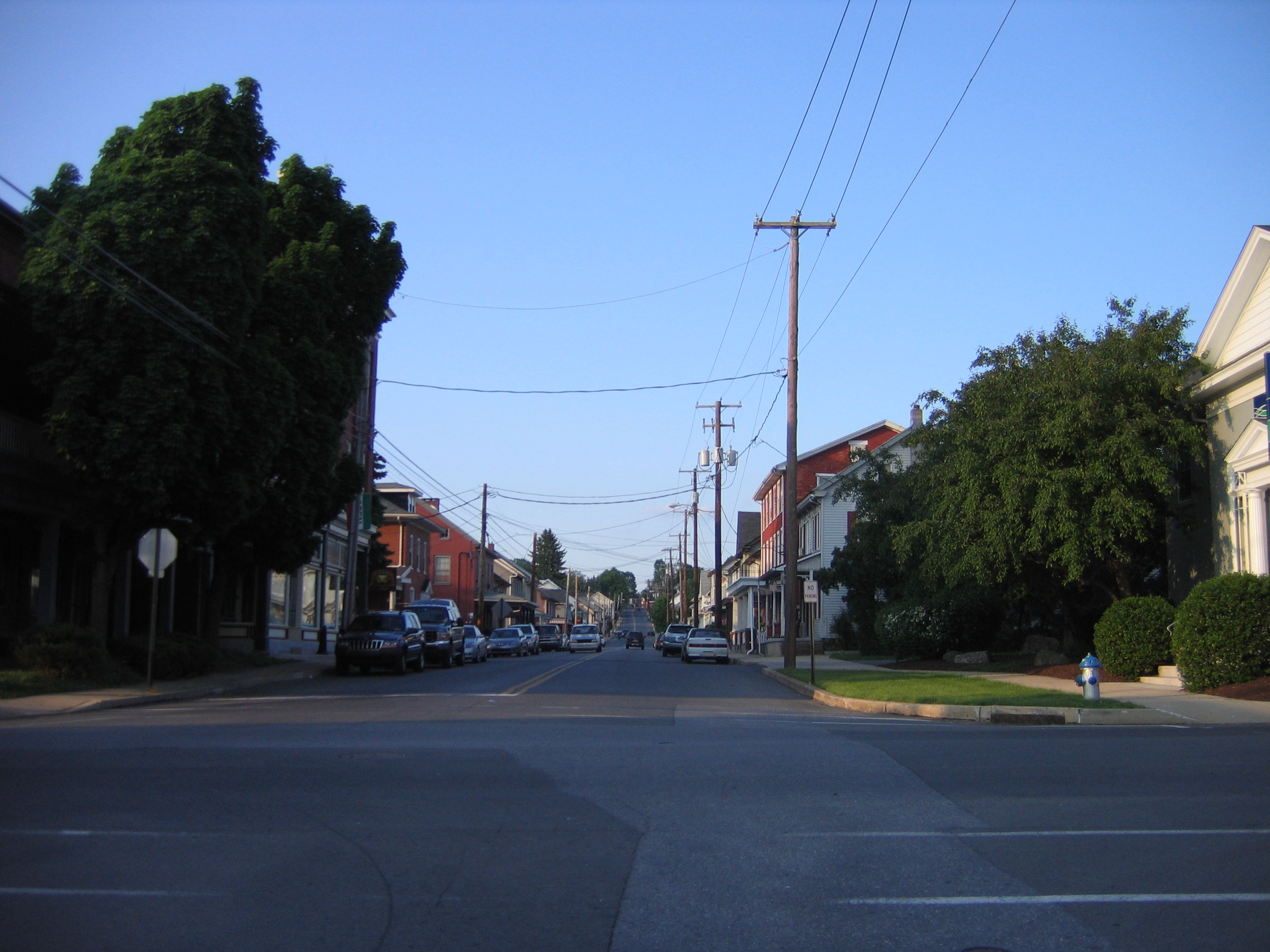 State Street (former SR 272) at Church Street, Reamstown, Pennsylvania